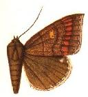 PLATE CCXIX.